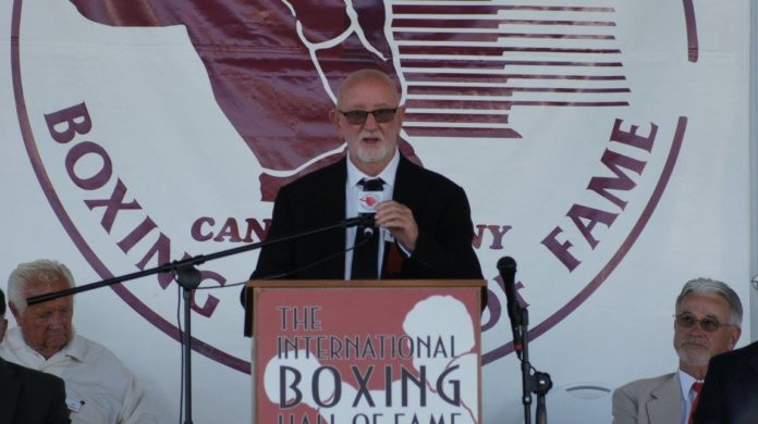 Johnny Lewis giving his acceptance speech into the boxing hall of fame in 2016, captioned:Australia's greatest boxing trainer Johnny Lewis during the induction ceremony at the International Boxing Hall of Fame class of 2017